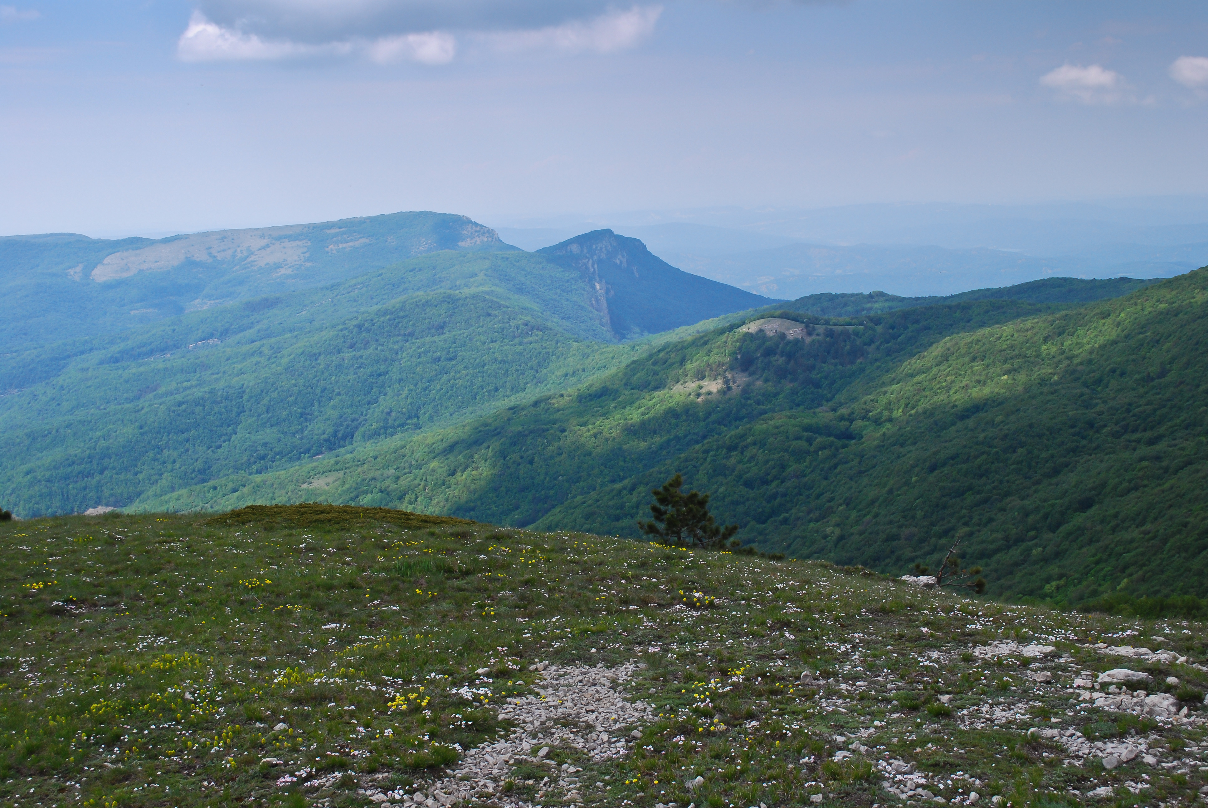 The mount Boyka (Crimean Mountains) viewed from south, from the mount Roka.